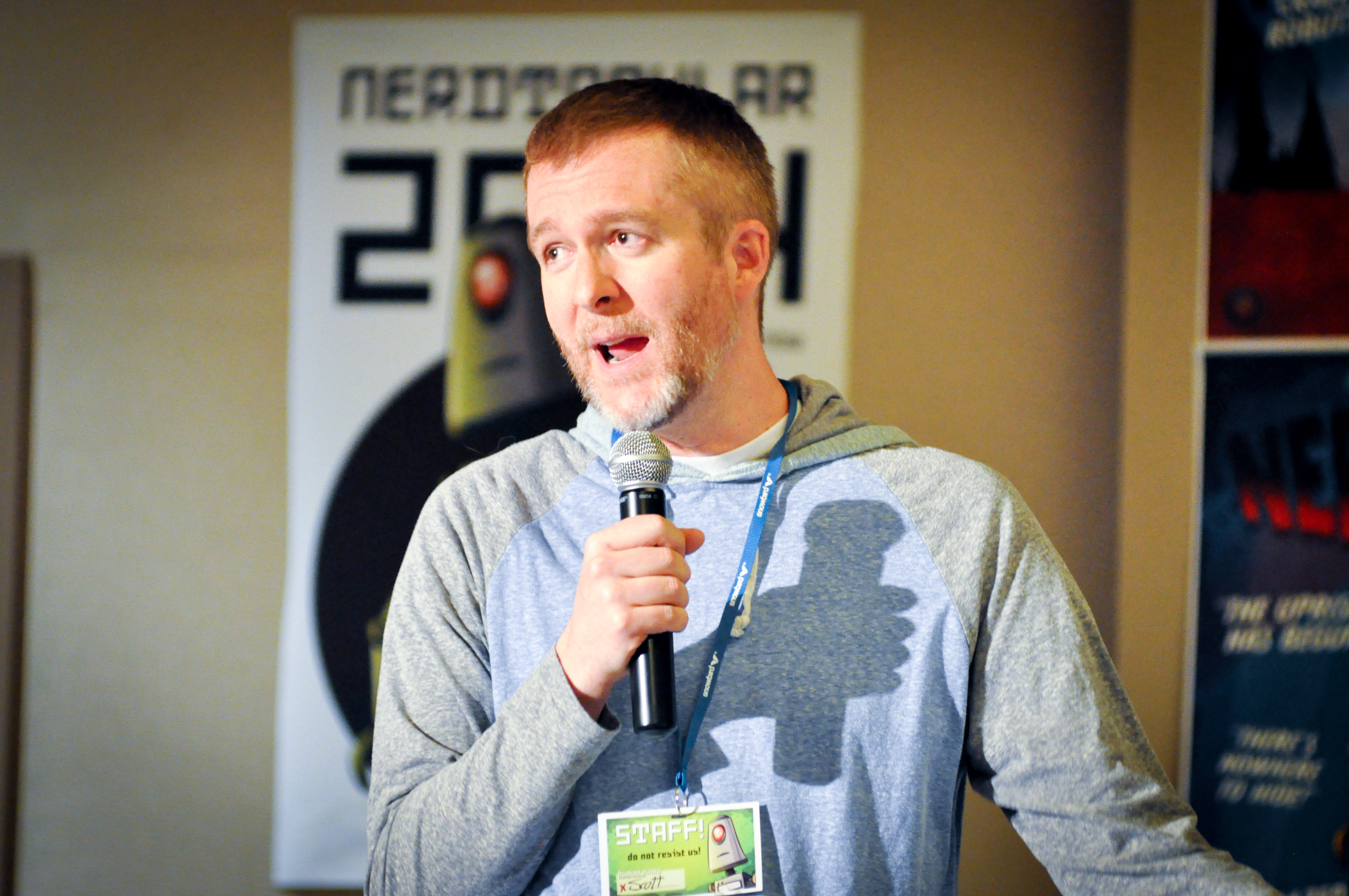 Scott Johnson's Keynote at the Nerdtacular 2014 Conference.